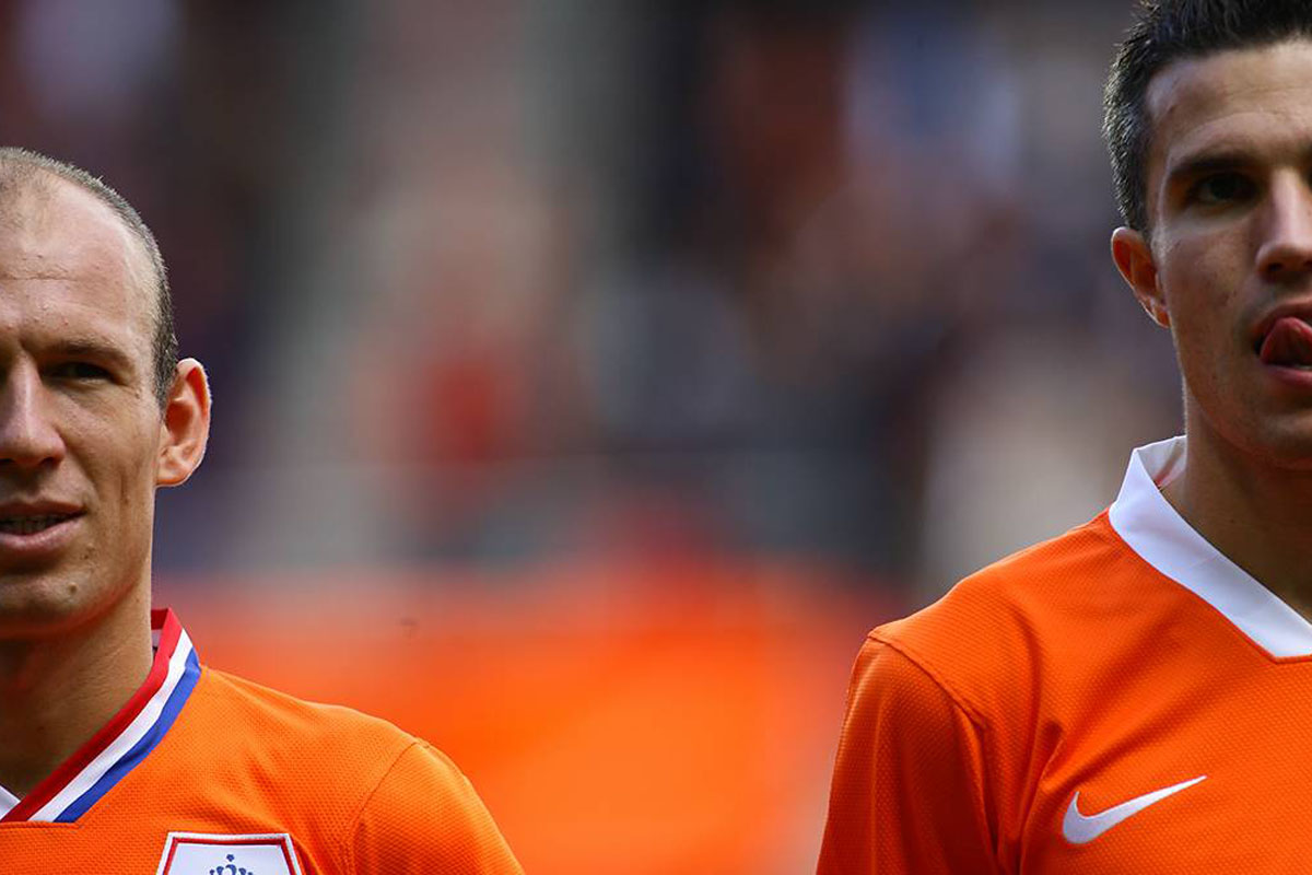 SEPTEMBER 5, 2009 - Football : Arien Robben and Robin Van Persie of Netherlands before the international friendly match between Netherlands and Japan at FC Twente Stadium on September 5, 2009 in Enschede, Netherlands. (Photo by Tsutomu Takasu)